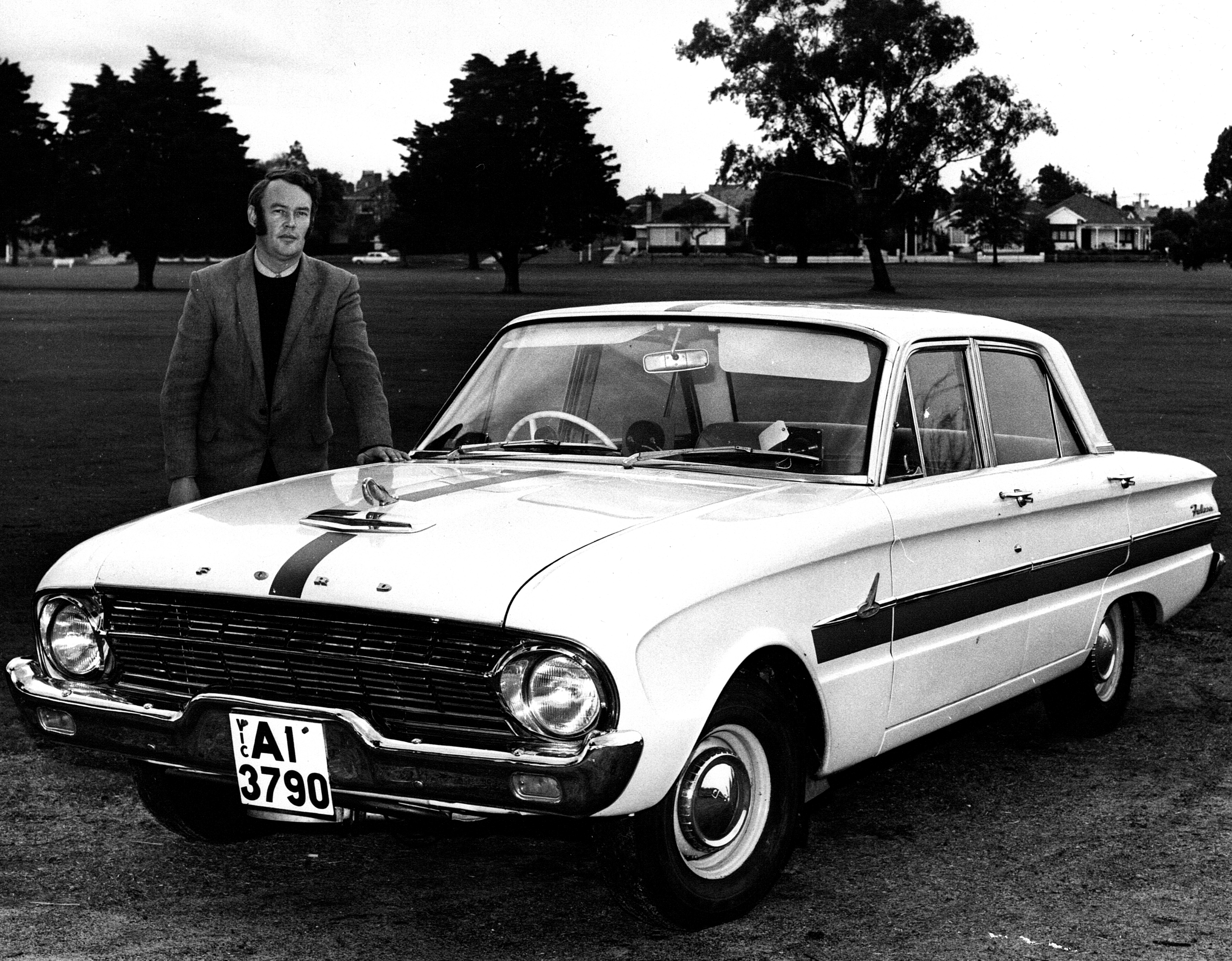 Image supplied by Uniflow Power Ltd., from archive material they hold. Free license approved. Image of Australian engineer Edward (Ted) Pritchard taken in 1974 next to his steam-powered Ford Falcon.